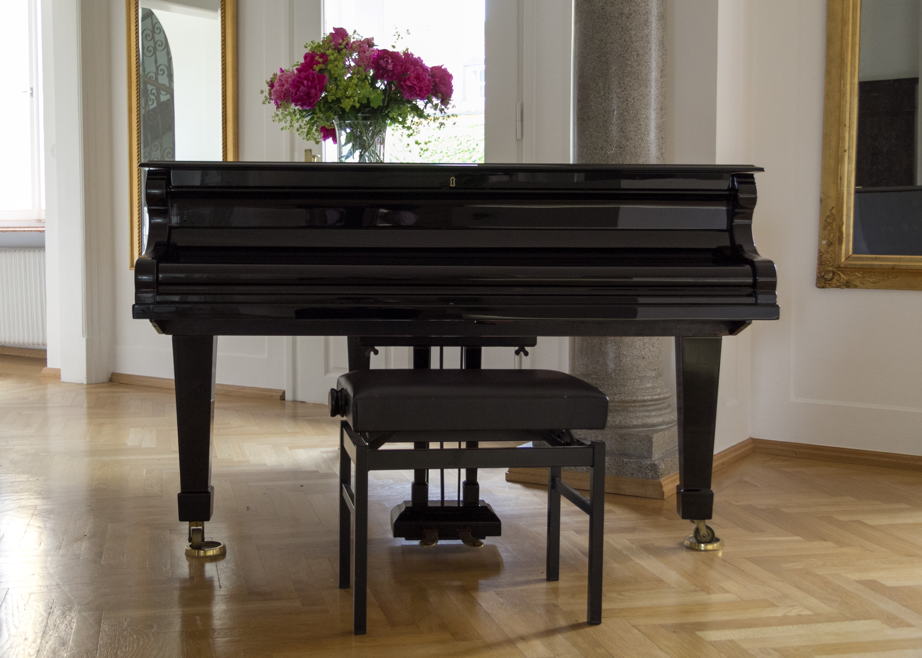 The castle of Tutzing. The piano in the foyer.